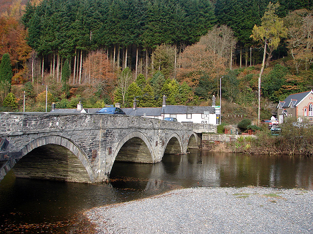 Pont ar Ddyfi This ancient bridge forms part of the modern Welsh transport infrastructure as it carries the main A487 trunk road across the Dyfi. It can be a bit of a bottleneck if two articulated lorries meet part way across. The Welsh Assembly do have plans to upgrade or replace the bridge but recent financial constraints on the Assembly will probably delay this.